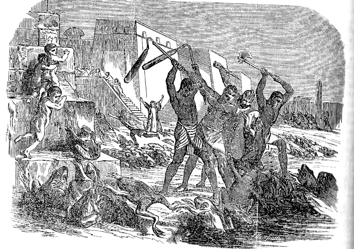 Second plague of Egypt. Frogs. Picture from popular bible encyclopedia of archimandrite Nikiphor (1891 year).